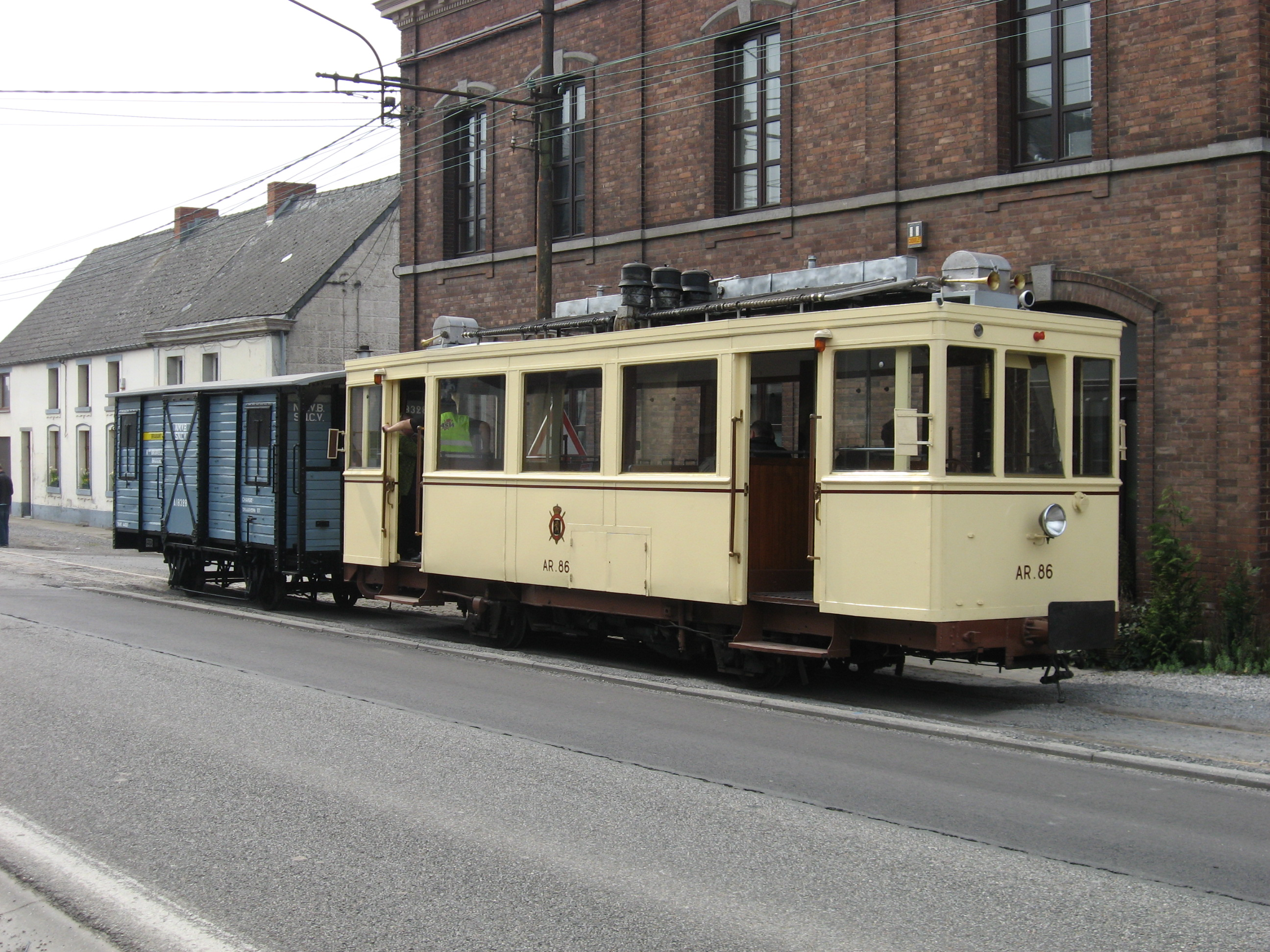 Heritage trip with a motorcar and bagagecar from the Asvi in Lobbes-Thuin.